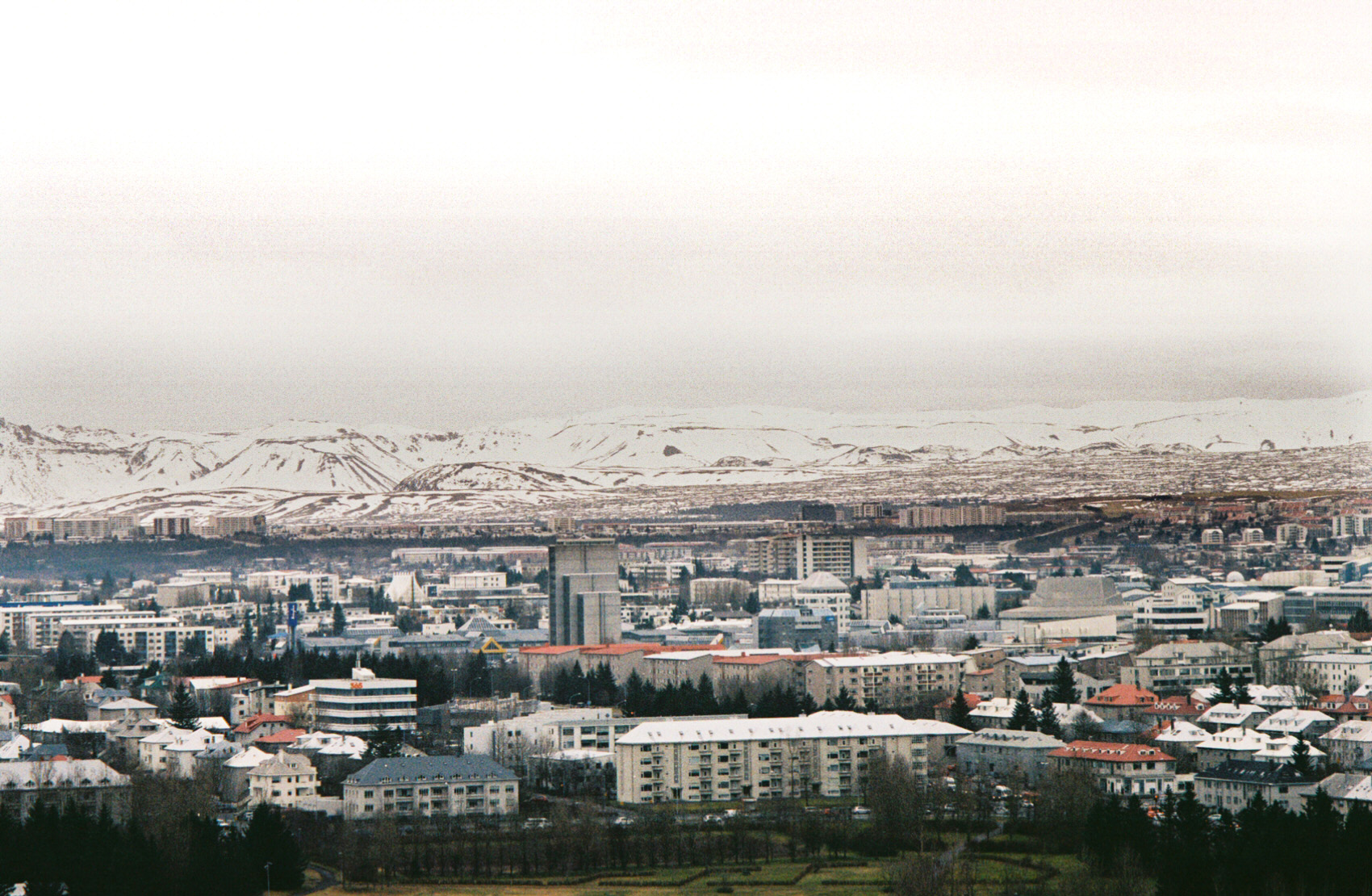 Picture of Reykjavik from Hallgrimskirkja church